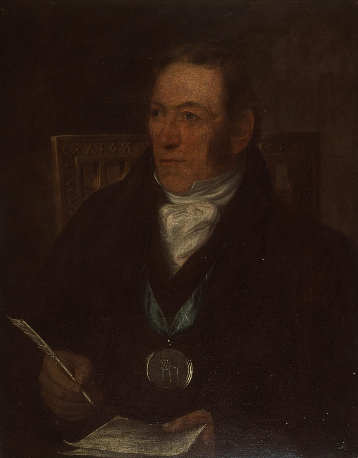 A painting from the Framed Works of Art collection at the National Library of wales.